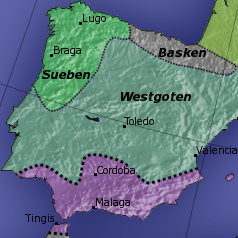 Spain at the death of Justinian I